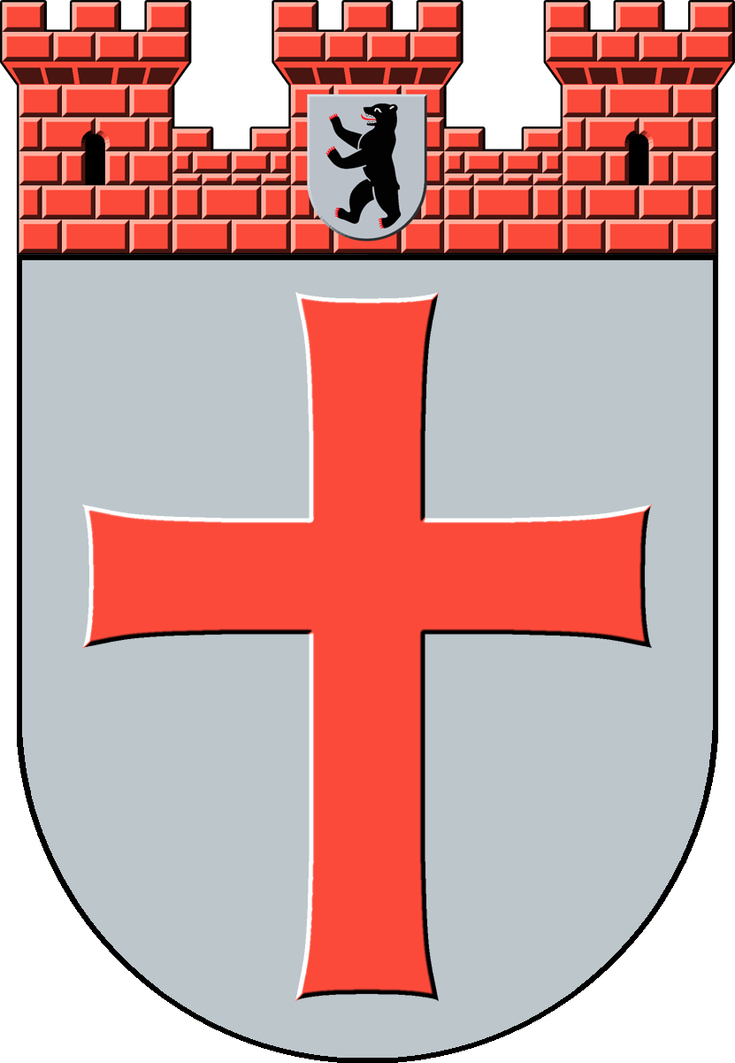 Coat of arms of Tempelhof, a former Boroughs of Berlin.